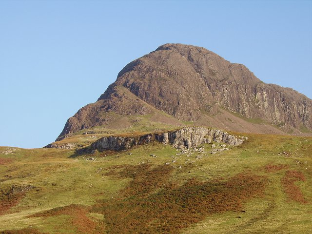 Preshal More Talisker's iconic hill. Associated with Samuel Johnson and James Boswell's tour of Skye the prow of rock, once a lava flow, shows a variety of different basalts.